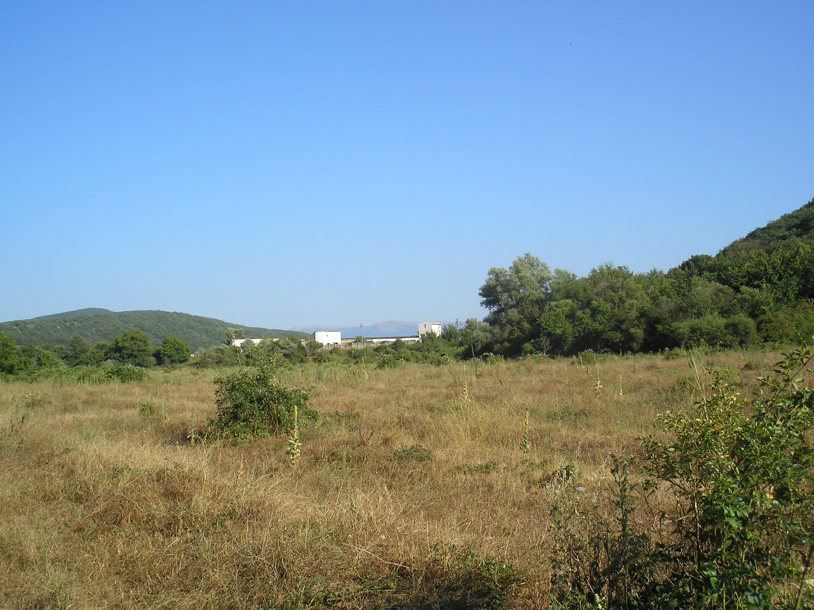 Farm buildings on the site of the village Machisala